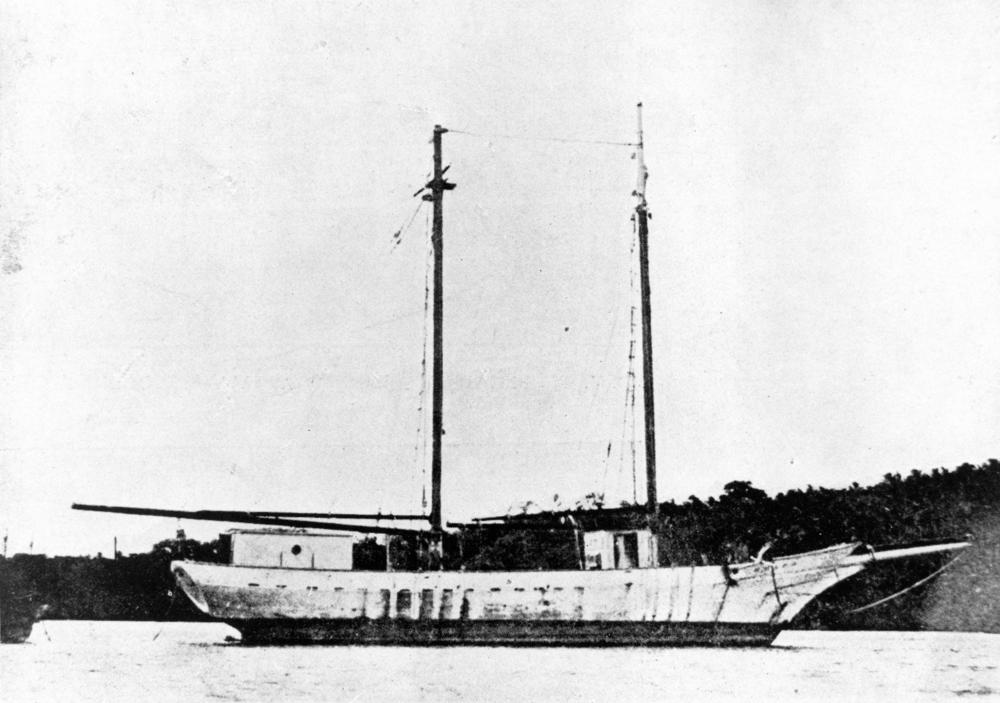 Snark (ship) The Snark is the vessel belonging to Jack London. (Information from The Queenslander, 19 February 1921 p.24).